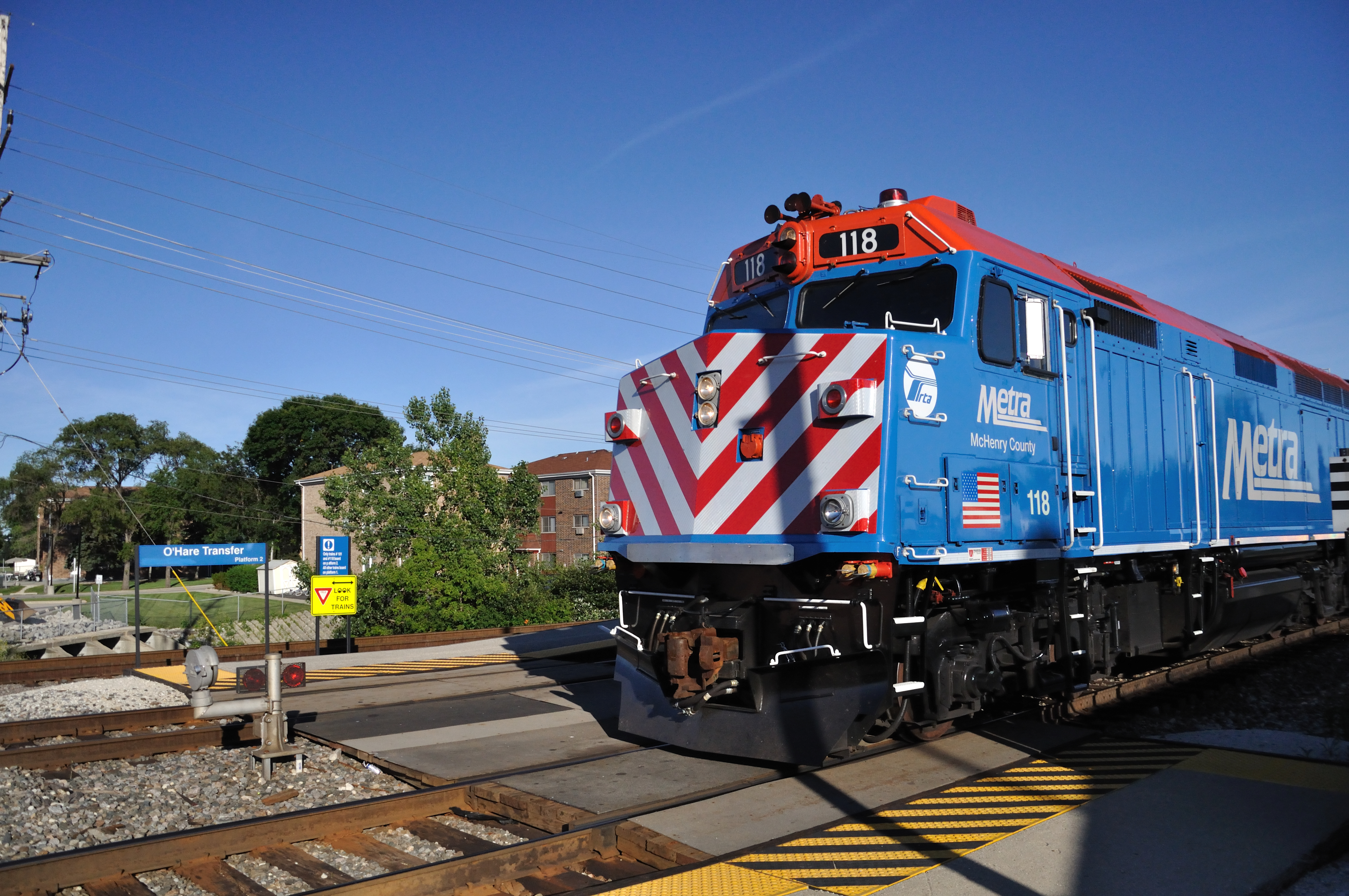 METX 118 "McHenry County"; leads a train of bi-levels into the O'Hare Transfer station.